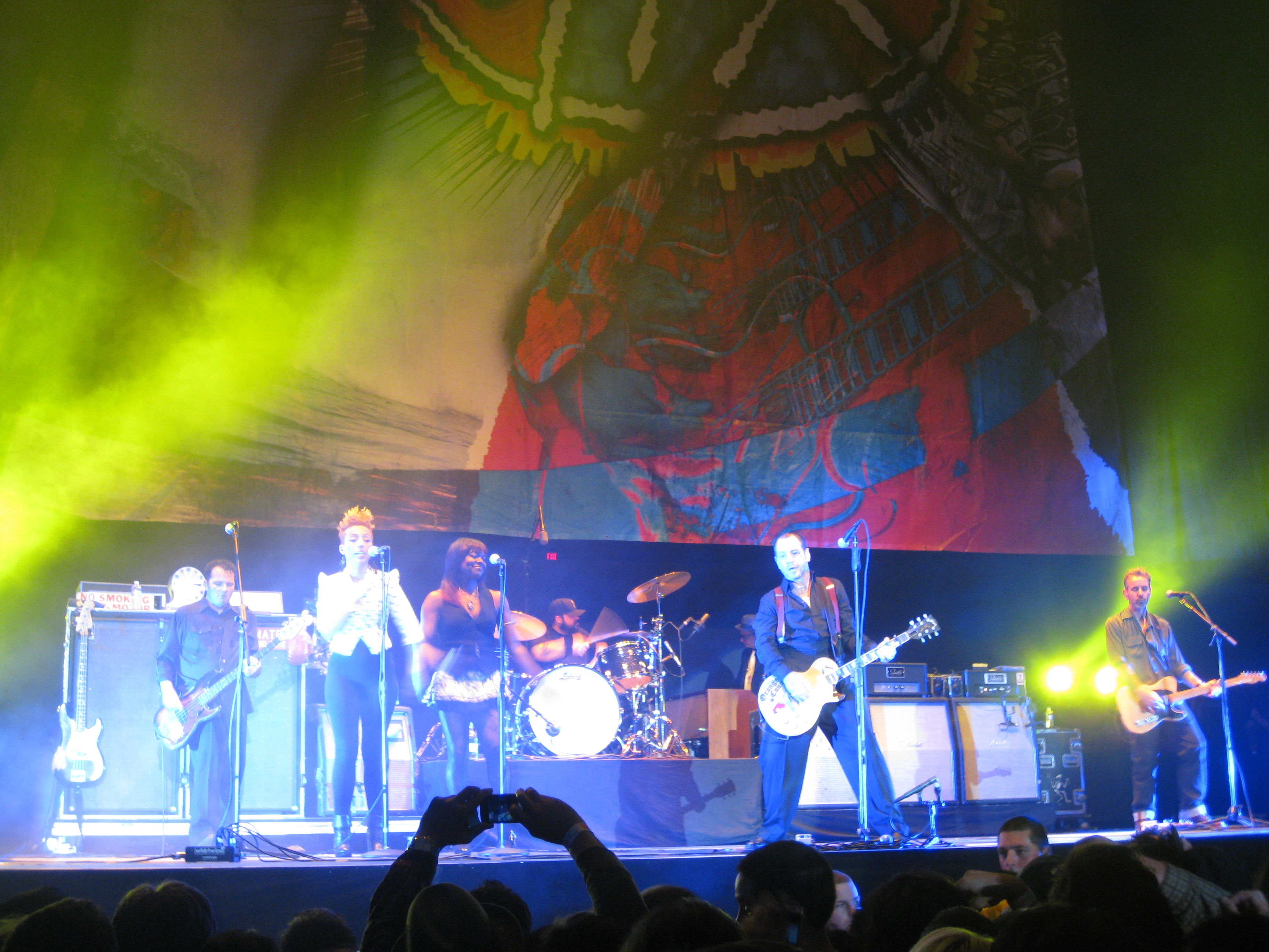 Social Distortion performing at the Valley View Casino Center in San Diego, California on December 11, 2011 as part of radio station 91X's "Wrex the Halls" concert. Left to right: bassist Brent Harding, guest backing vocalists Kandace Lindsey and Ijeoma Njaka, drummer David Hidalgo, Jr., singer/guitarist Mike Ness, and guitarist Jonny "2 Bags" Wickersham.